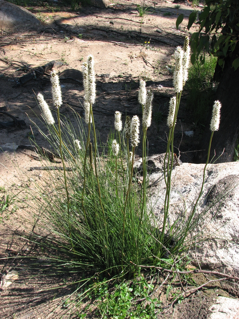 Xanthorrhoea minor subsp.lutea, Bunyip State Park, Victoria, Australia